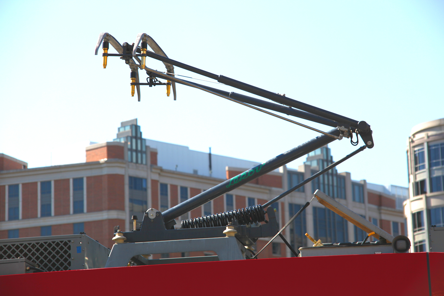 Side view of a pantograph of a DPO-Inekon streetcar (also known as an Inekon tram) purchased in 2005 by the D.C. Department of Transportation for use on the Anacostia line of the DC Streetcar system in Washington, D.C., in the United States.